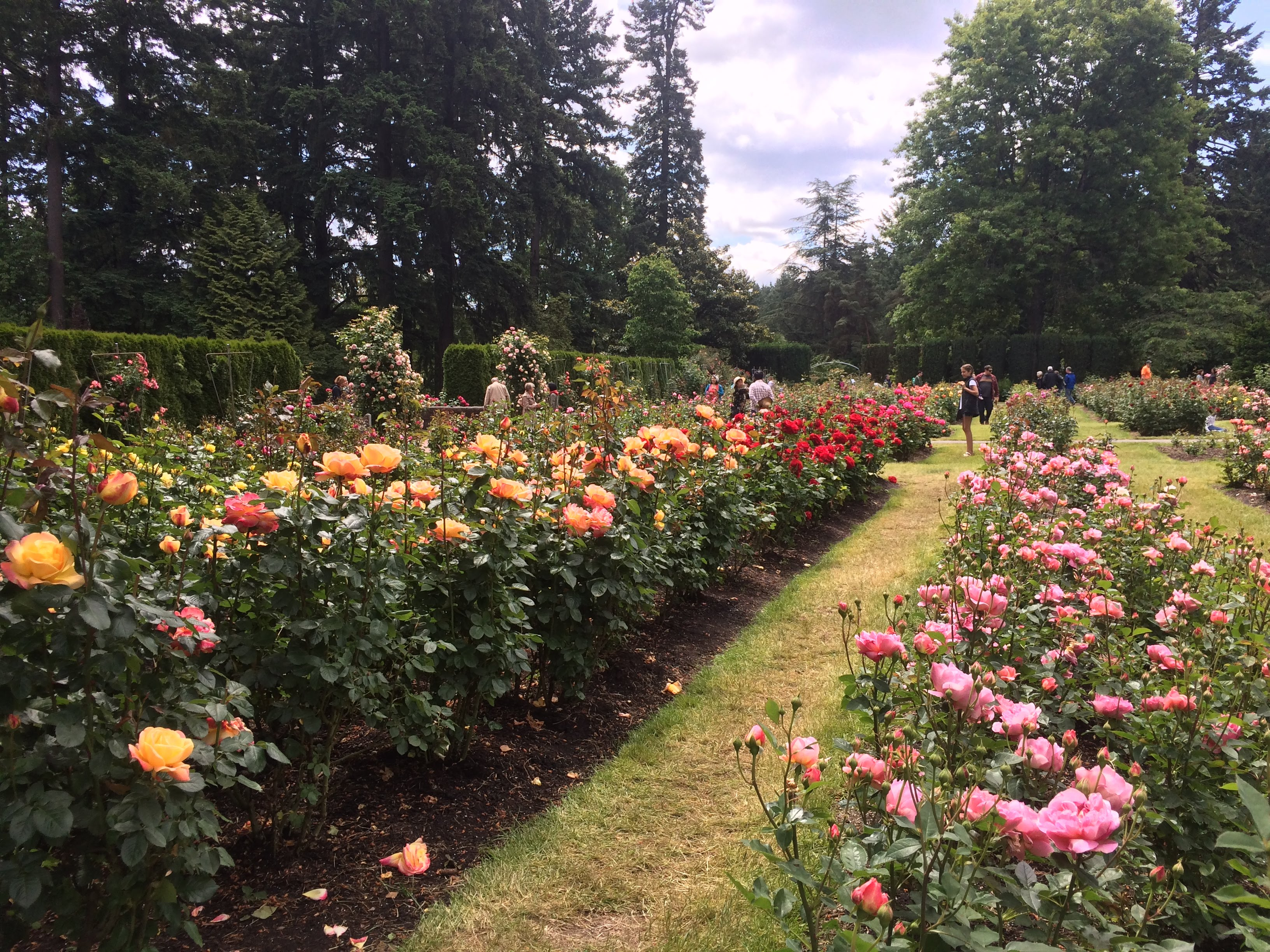 View during the summer 2018